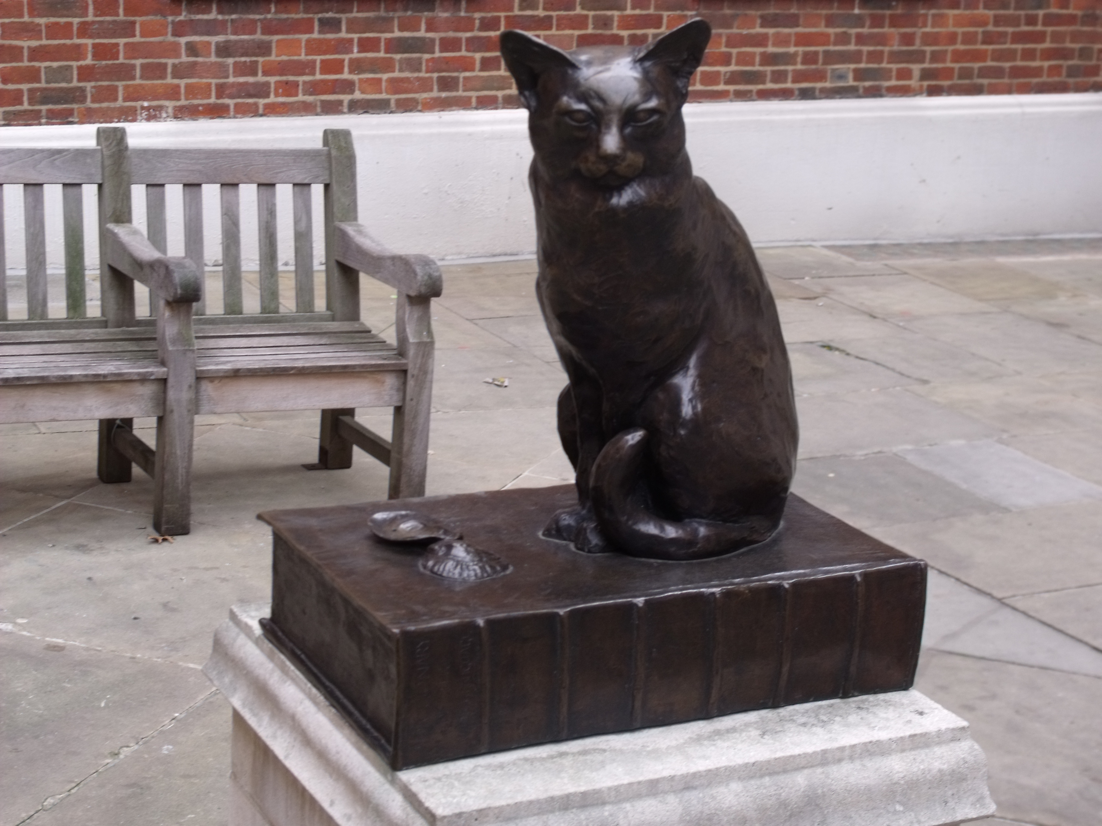 This is Gough Square in the City of London. The location of the home Dr Johnson lived in from 1748 to 1759. This is a statue of Hodge, the cat of Dr Johnson. It is outside Boswell House, opposite Dr Johnson's House. It is positioned as if Dr Johnson is looking out the window at his cat. It is sitting on a book, probably A Dictionary of the English Language. It is by H.W. Fowler, in tribute to the work of Major Byron F Caws in the preparation of the Concise Oxford English Dictionary. Erected by his grandson Richard Byron Caws in September 1997.